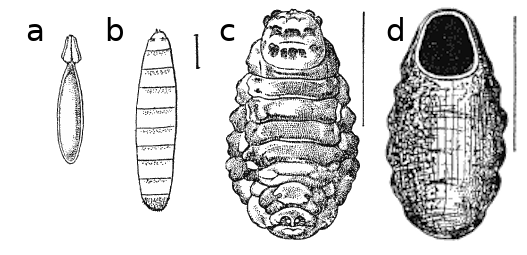 Development of ox warble-fly (Hypoderma bovis). a, egg b, young maggot from gullet, ventral view c, full-grown maggot from back of ox, dorsal view d, empty puparium, ventral view